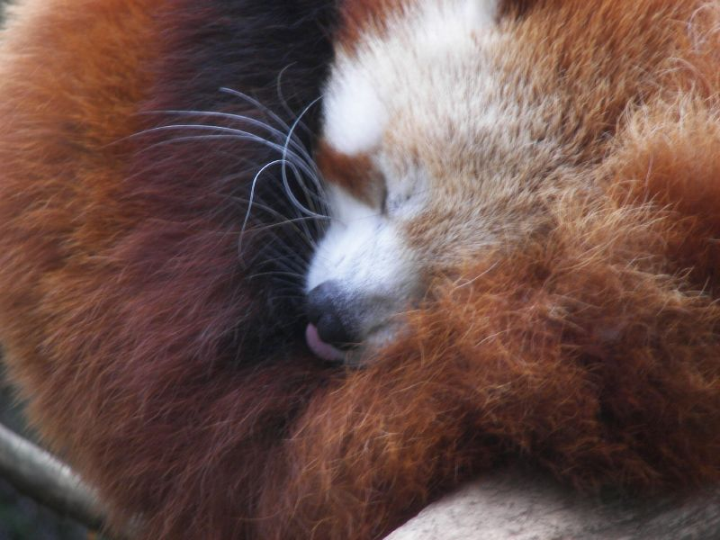 red panda @ Erie Zoo 10/06